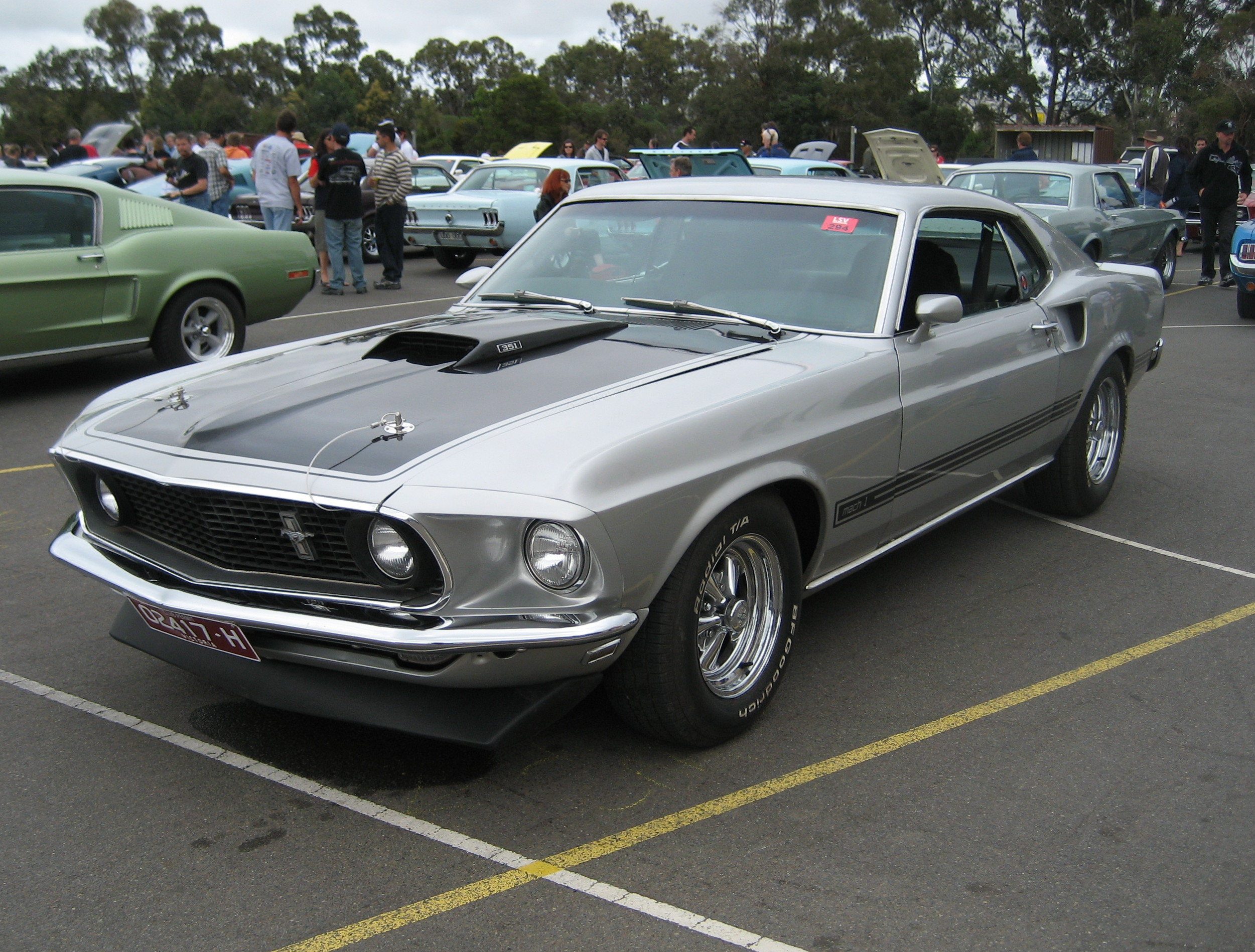 Silver Jade The 1969 Mustang got a new body, nearly 4 inches longer than the 1968 model. The Fastback was now called the Sportsroof and available as the Mach 1 with reflective striping, matt black hood, with functional scoop and lock pins. Other Sportsroofs available were the Boss 302 (for Trans Am homologation) and Boss429 (for NASCAR homologation) Other options were the 'Shaker' hood, front and rear spoilers and rear window louvre. Hardtops and Convertibles also available Engines; 200 and 250 6s or 302, 351 and 390 V8s also 428 Cobra Jet (with or without Ram air), Boss 302 and 429